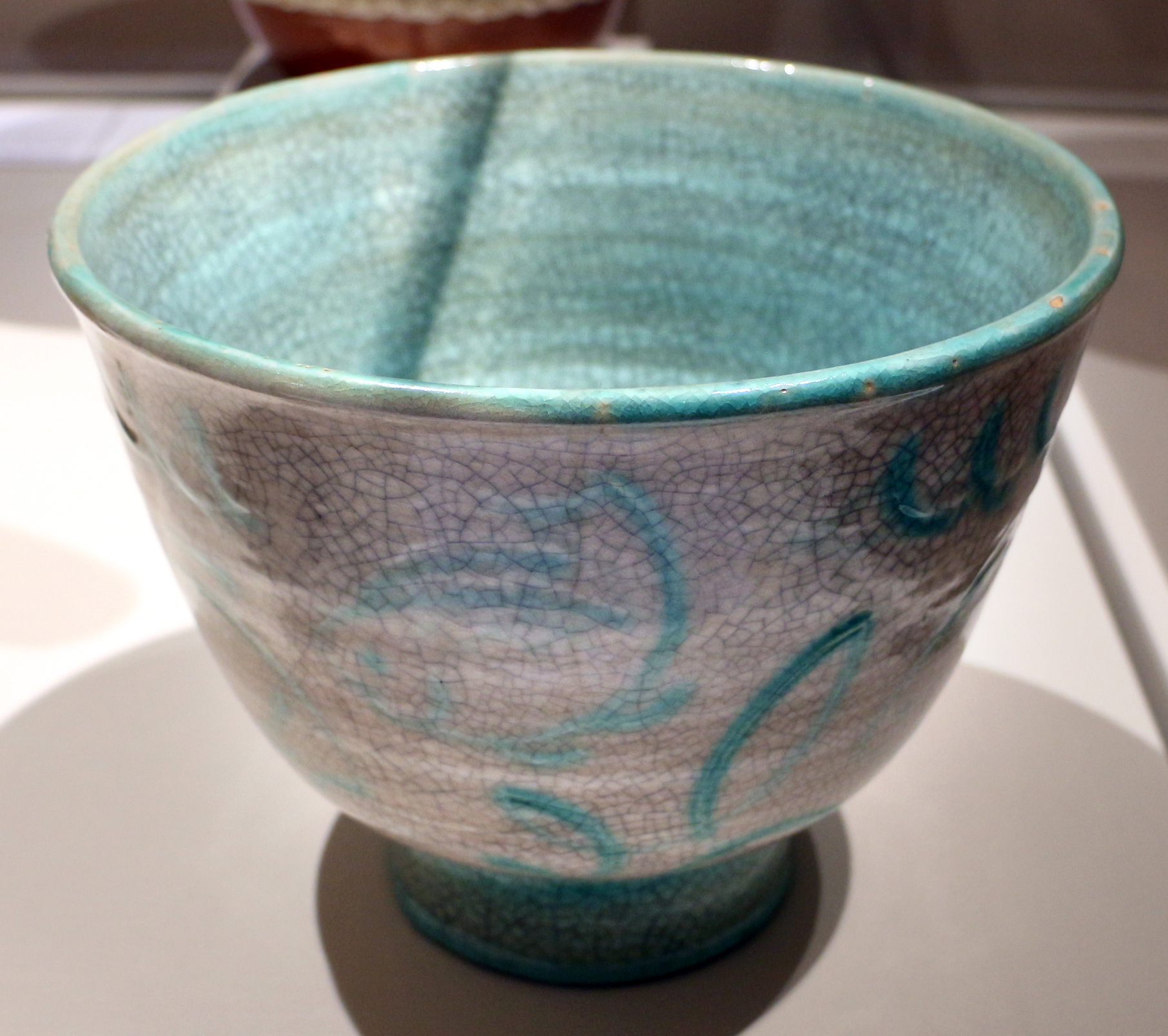 Collections of the Milwaukee Art Museum